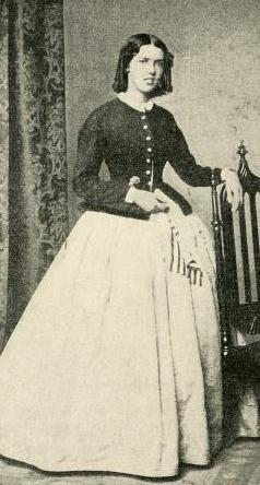 A young white woman in a fitted long-sleeved bodice and a long, voluminous skirt, standing. Her dark hair is dressed in curls.